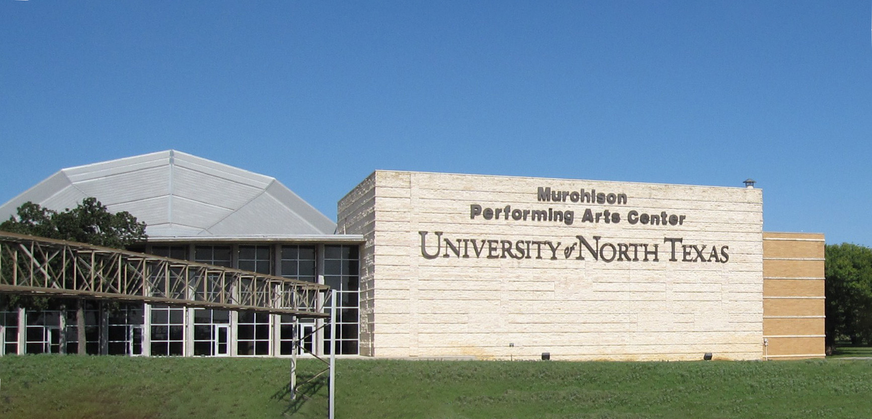 UNT center